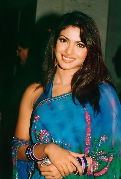 Priyanka Chopra at the 100 days celebration party of Andaaz